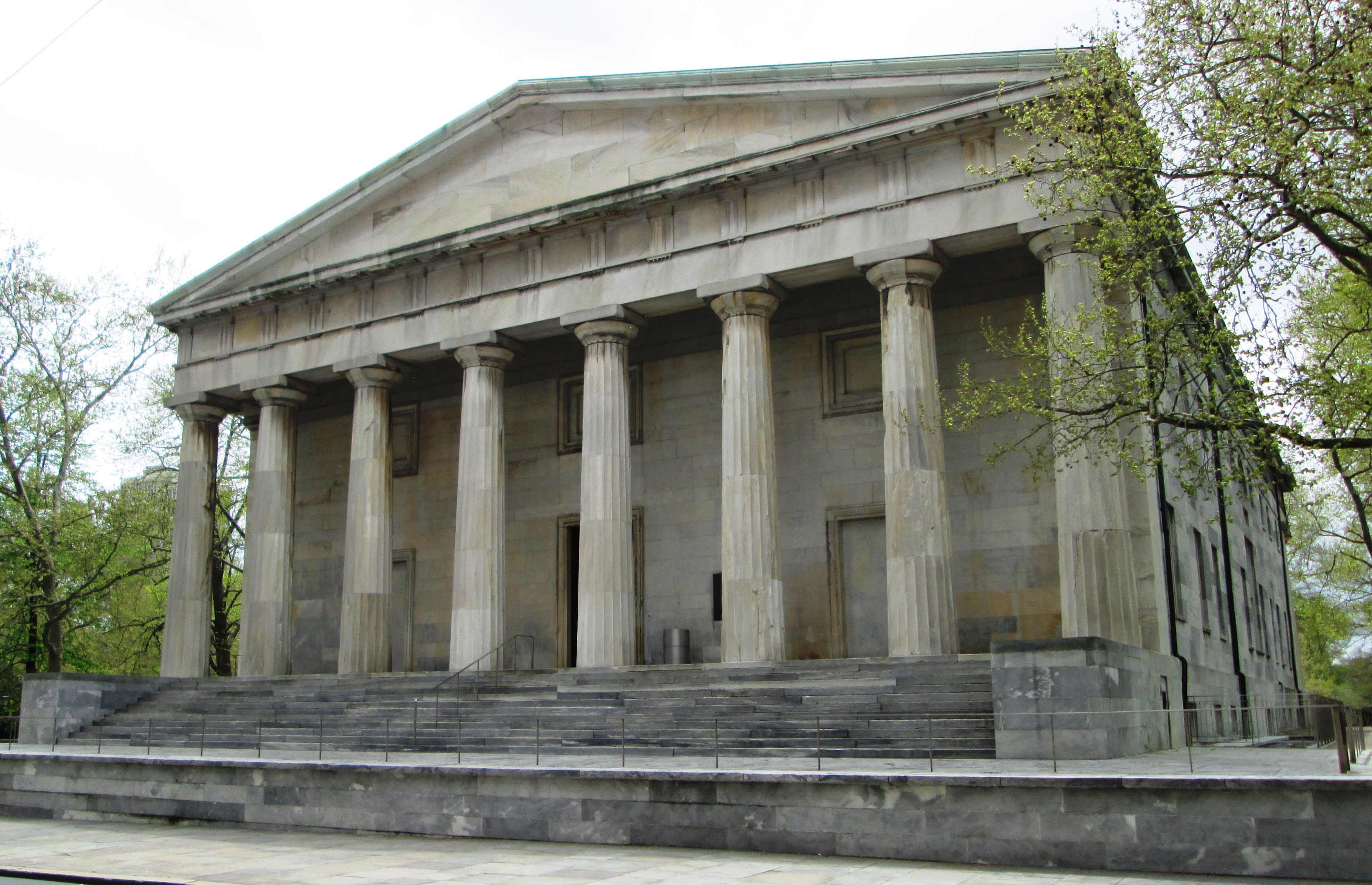 The Second Bank of the United States at 420 Chestnut Street between S. 4th and S. 5th Streets in the Center City area of Philadelphia was built in 1818-1824 and was designed by William Strickland in the Greek Revival style. The Bank itself was founded in 1816, and the design was the result of a competition, in which all entries had to use the Greek style. Strickland modeled his design on the Parthenon. When Andrew Jackson vetoed the bank's recharter in 1832, it folded, and in 1844 Strickland altered the building for use as the U.S. Custom House, a role it served until 1935. It is now used as the Portrait Gallery of the Independence National Historic Park. (Source: Philadelphia Architecture: A Guide to the City)